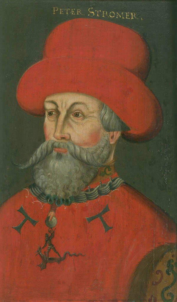 Peter Stromer (um 1315-1388), German merchant, mine owner and town-councillor of Nuremberg, known as "Father of forest cultivation"